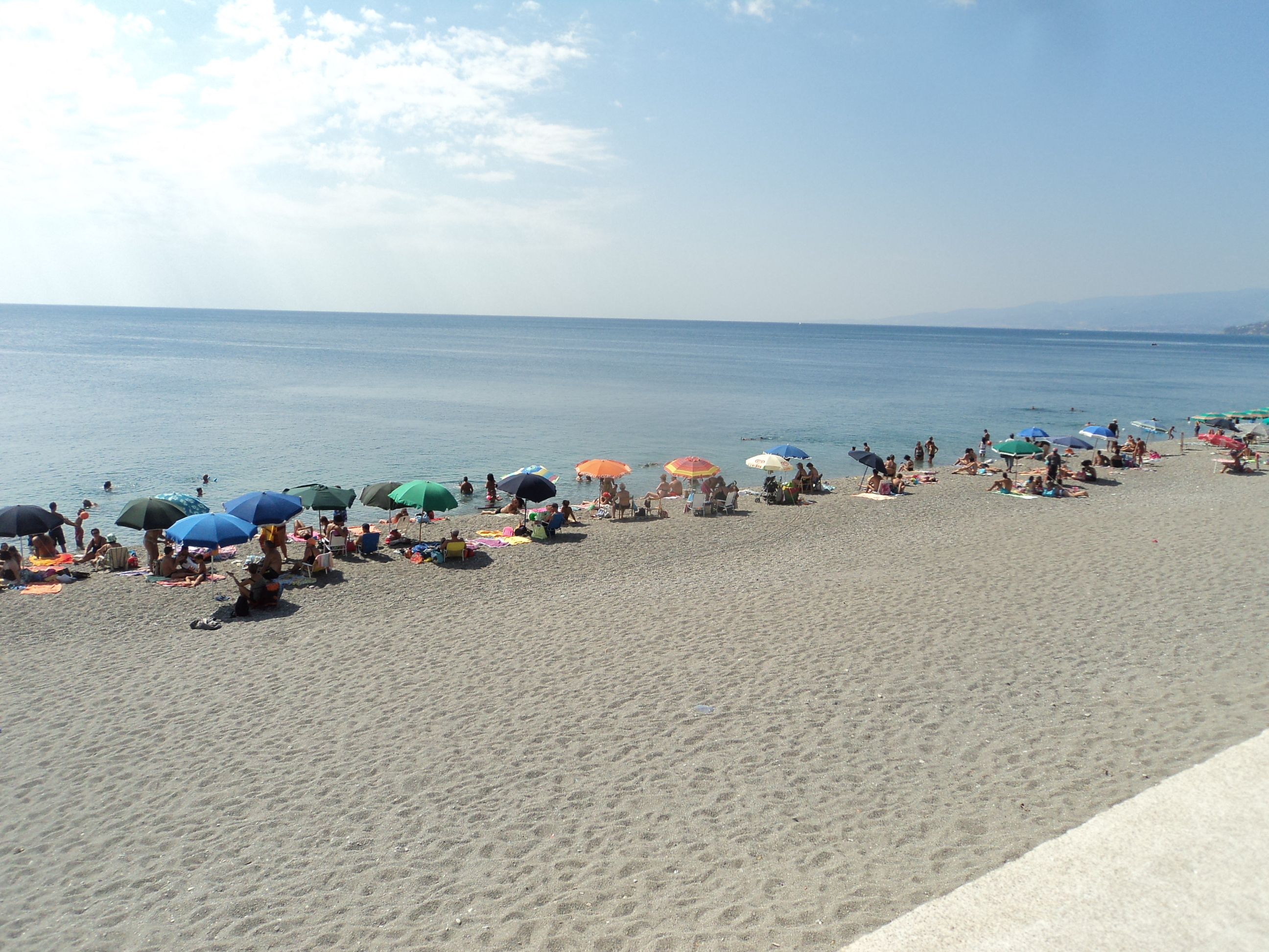 Catanzaro Lido